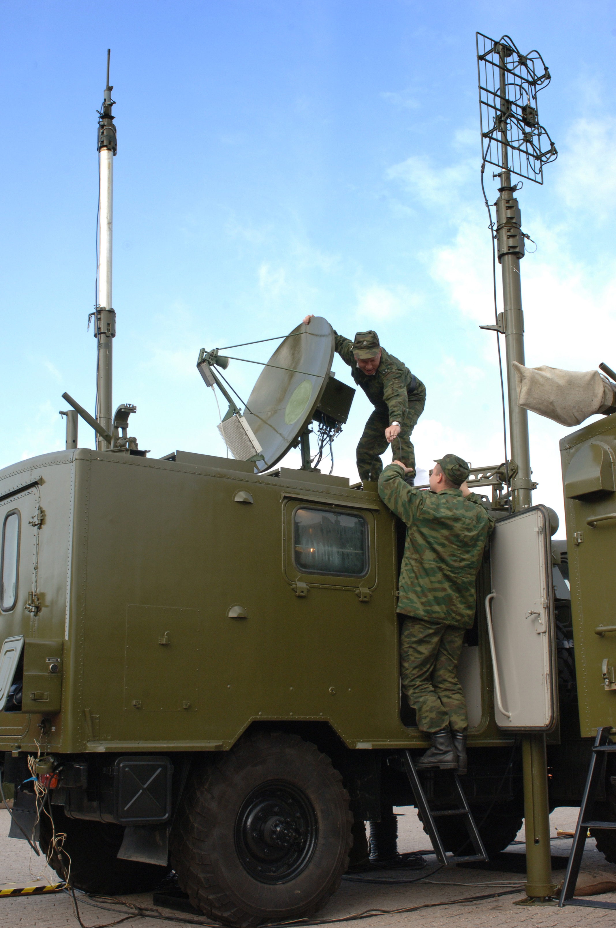 Members of the Russian Land Forces install a shuttle satellite on a military truck during the military exercise Combined Endeavor 2007.